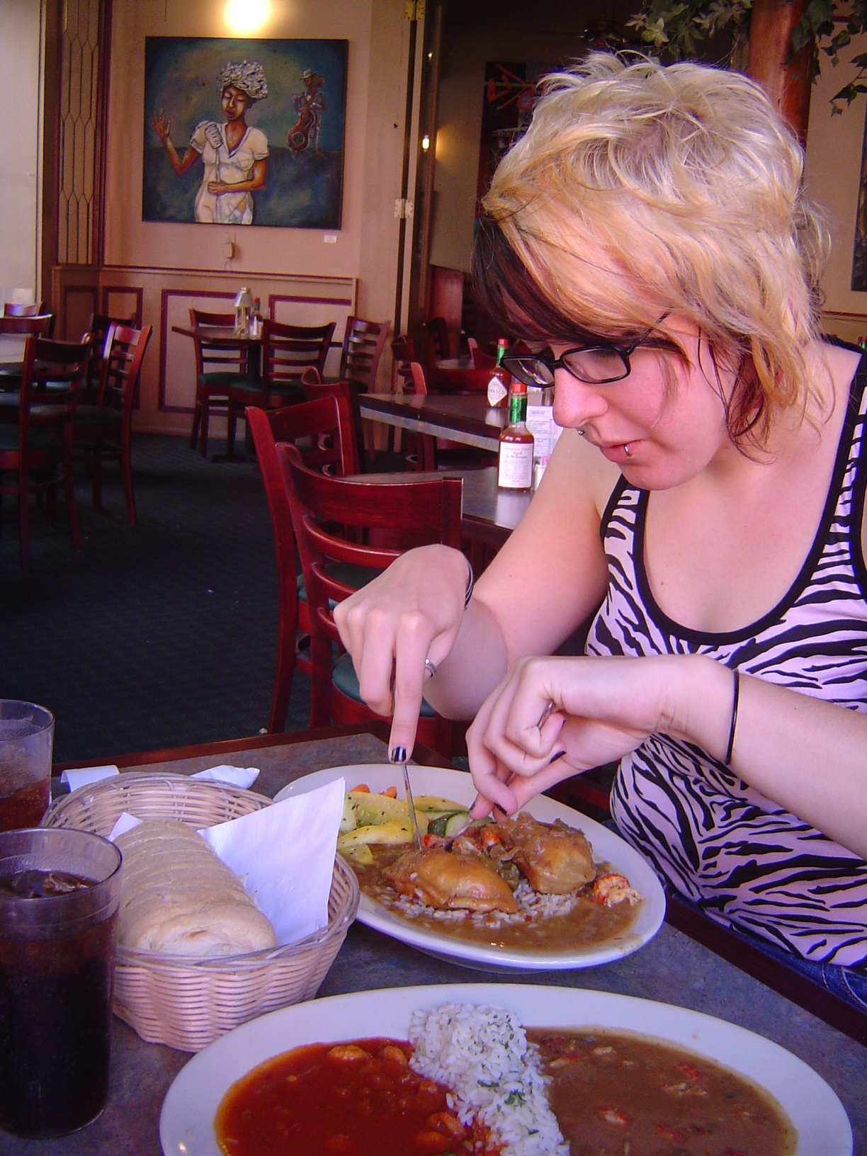 Lunch at Pere Antoine Restaurant, New Orleans - Crawfish pie for Jo, gumbo and crawfish etouffle for me.